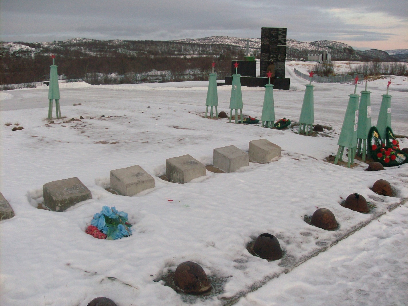 This "Memorial for the Defenders of the Soviet Arctic" is 70 km west of Murmansk, on the road to the Norwegian border and close to the Zapadnaya Litsa River. From 1941 - 1944 the Litsa River formed the frontline between German and Finnish troops on the west, trying to take Murmansk, and Soviet troops on the east, defending the city (in which they succeeded). Thousands perished here in the tundras.